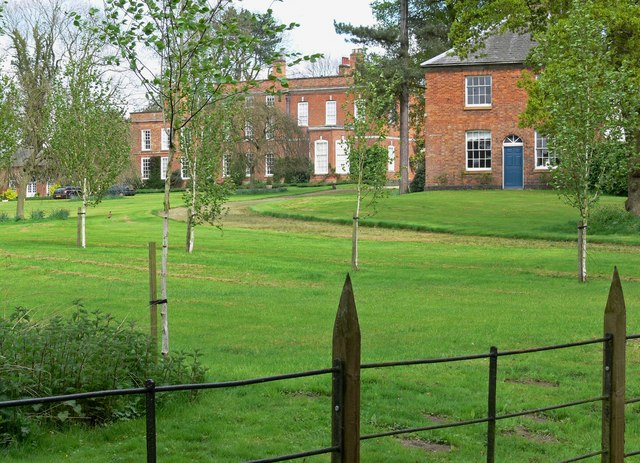 Osbaston Hall. In the tiny Leicestershire village of Osbaston.